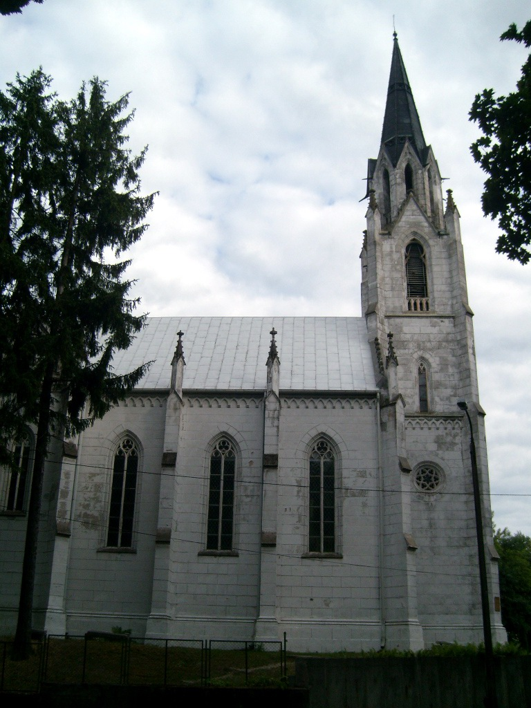 The church in Jabłonowo Pomorskie, Poland